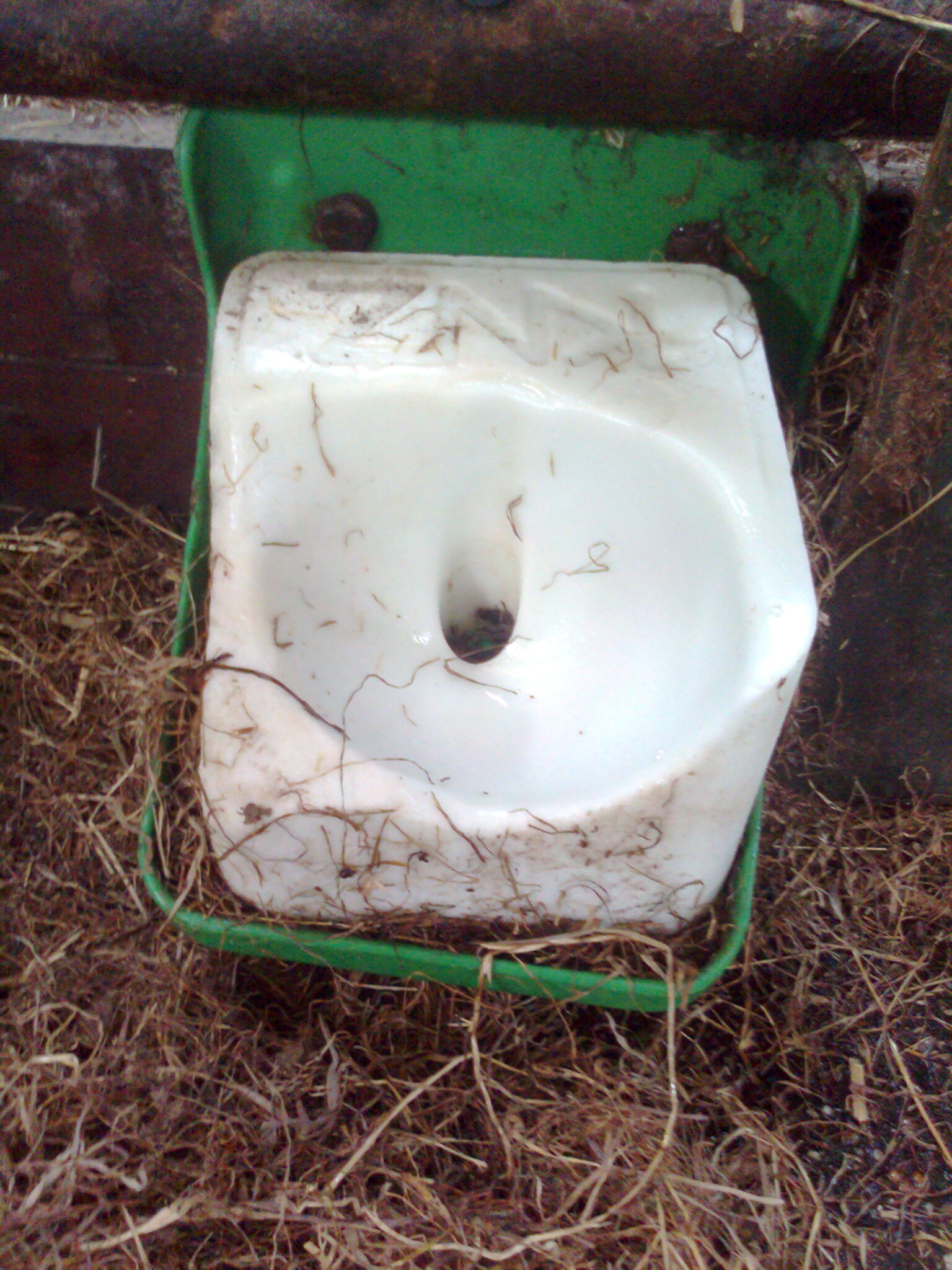 Salt block for cows